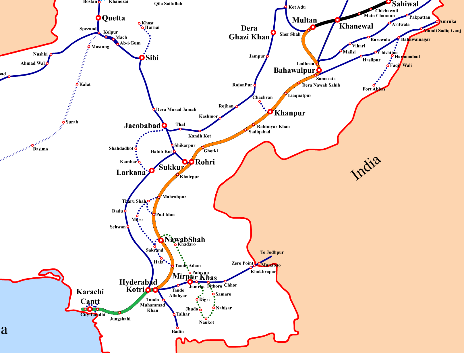 Phases 2 and 3 of the Karachi to Peshawar mainline reconstruction.